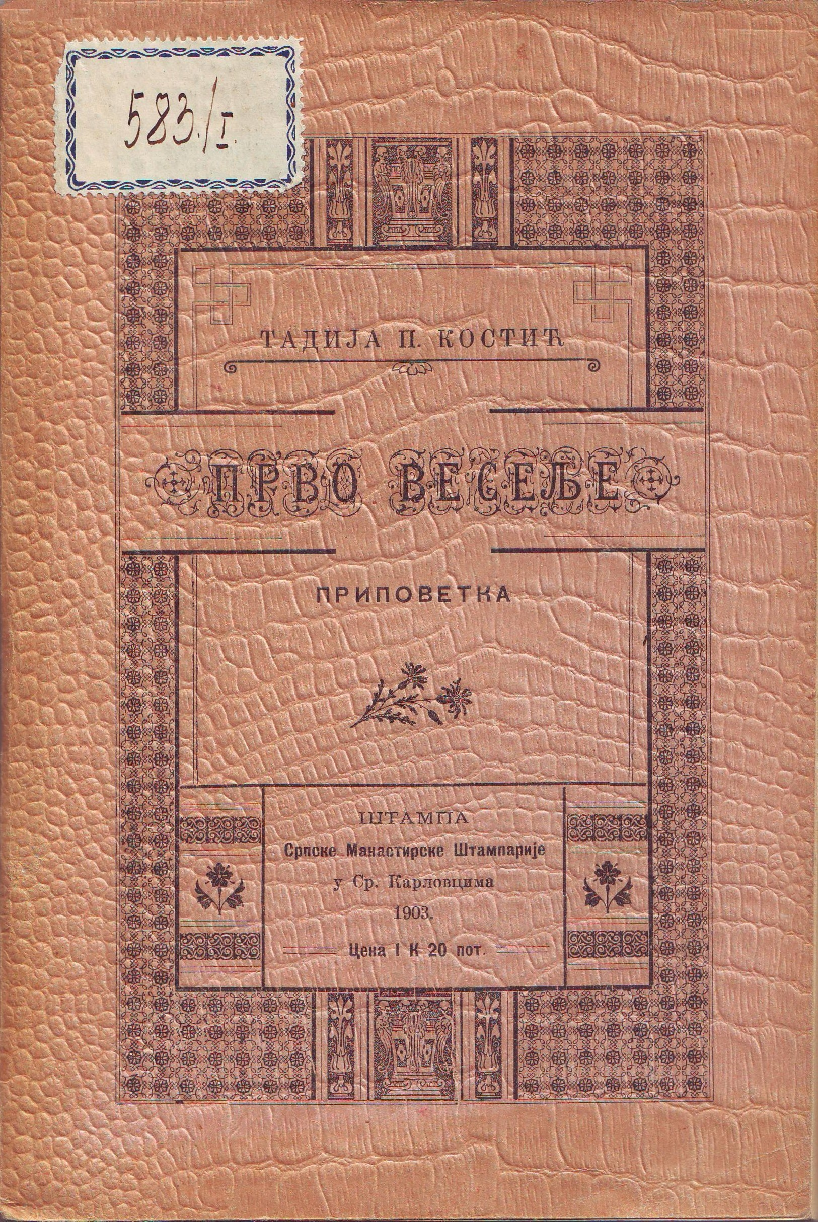 Cover of short story Prvo veselje (1895) by Tadija Kostić. Srpski (latinica): Naslovna strana pripovetke Prvo veselje (1895) Tadije Kostića.